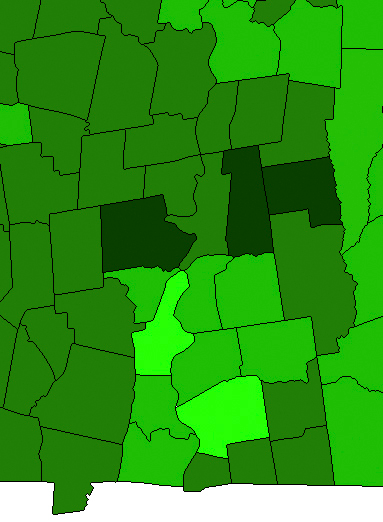 Towns in Massachusetts by combined mean SAT of their public high school district for the 2015-2016 academic year. (Does not include the combined mean SATs of regional vocational public high schools or public charter high schools.) Towns represented in the darkest green have school districts with a combined mean SAT above 1672 (more than a standard deviation above the mean for Massachusetts high schools). Towns represented in dark green have school districts with a combined mean SAT in the range of 1525 to 1672 (within a standard deviation above the mean for Massachusetts high schools). Towns represented in light green have school districts with a combined mean SAT in the range of 1377 to 1525 (within a standard deviation below the mean for Massachusetts high schools). Towns represented in the lightest green have school districts with a combined mean SAT below 1377 (more than a standard deviation below the mean for Massachusetts high schools). SAT data for school districts was procured at